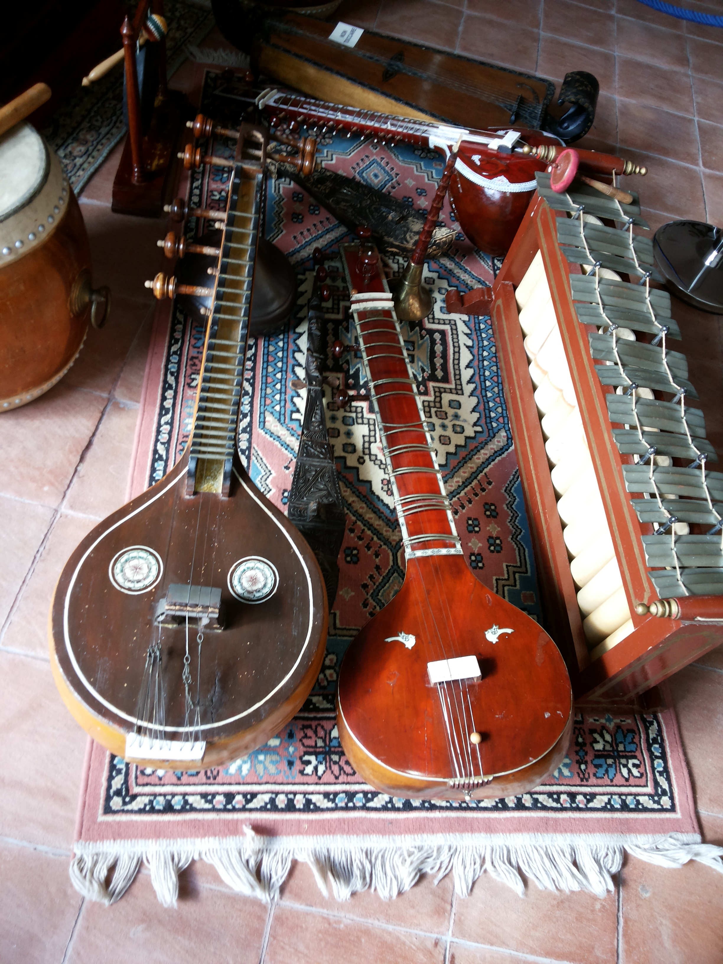 Musical Instruments exhibition at Collegio dei Gesuiti (Alcamo) - Gift by Professor Fausto Cannone